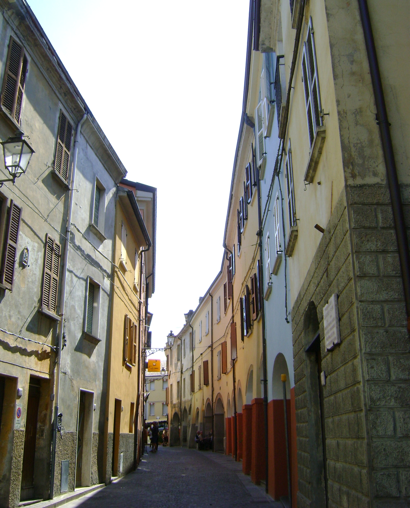 View of Cesio Sabino street in Sarsina, in the province of Forlì-Cesena, Emilia-Romagna